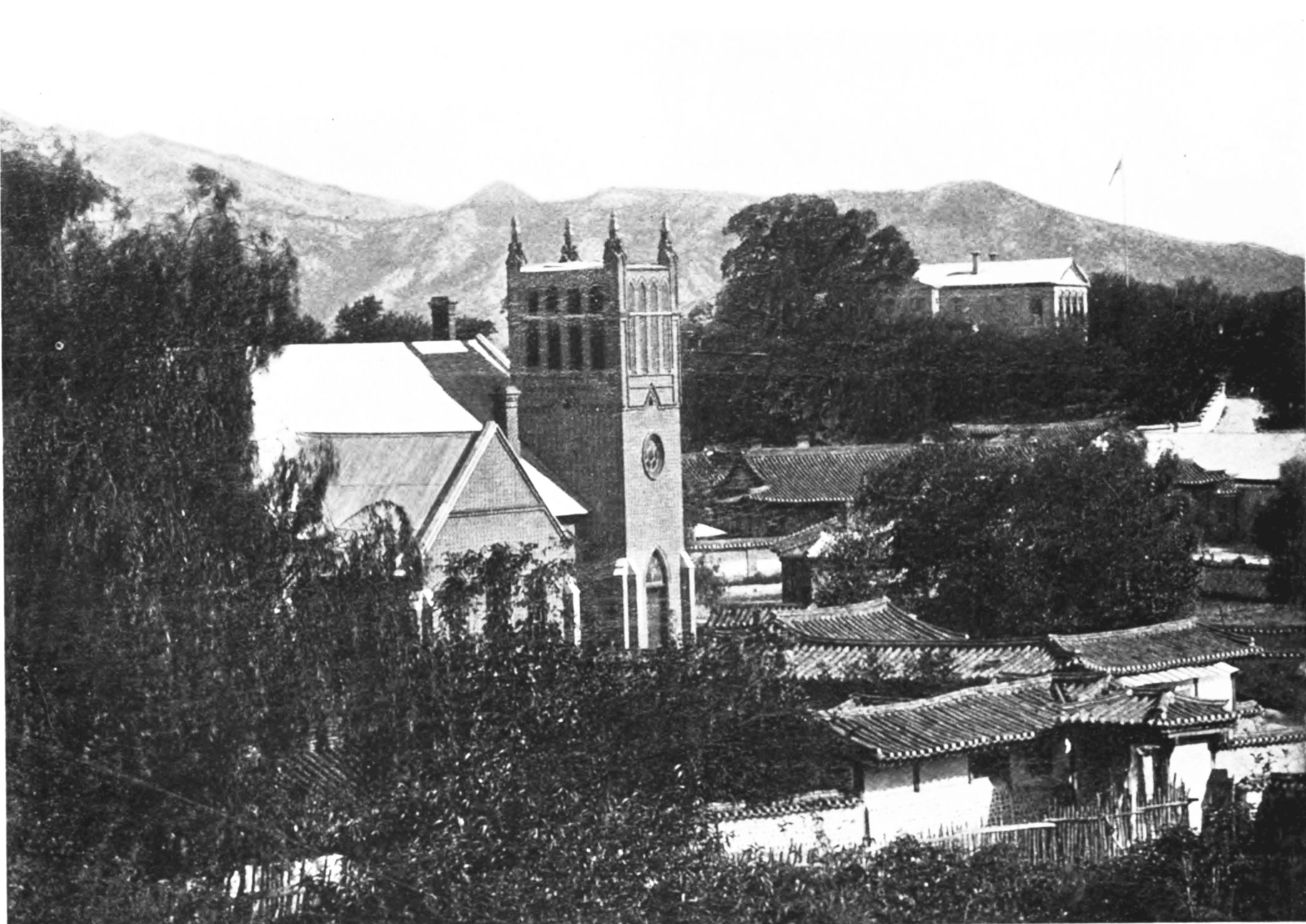 American Methodist Church, Seoul, c.1900; p.567. The passing of Korea (book)